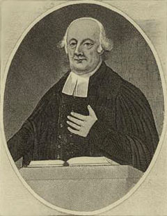 Protestant clergyman, 1814